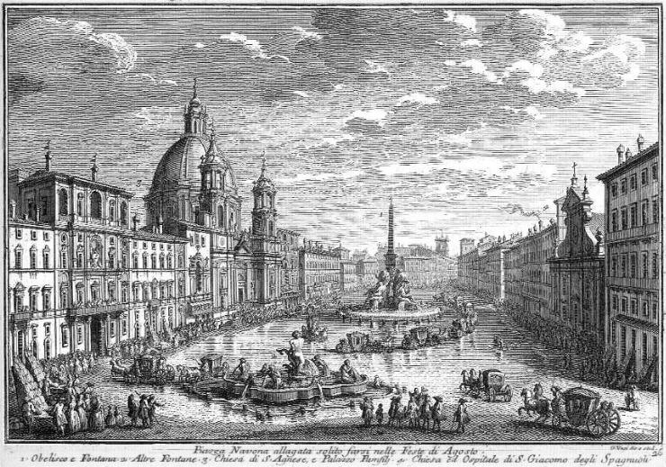 1) Obelisco e Fontana (dei Quattro Fiumi); 2) Other Fountains, i.e. 2a - Fontana del Moro and 2b - Fontana del Nettuno; 3) Chiesa di S. Agnese e Palazzo Pamphilj; 4) Chiesa ed Ospitale di S. Giacomo degli Spagnoli.